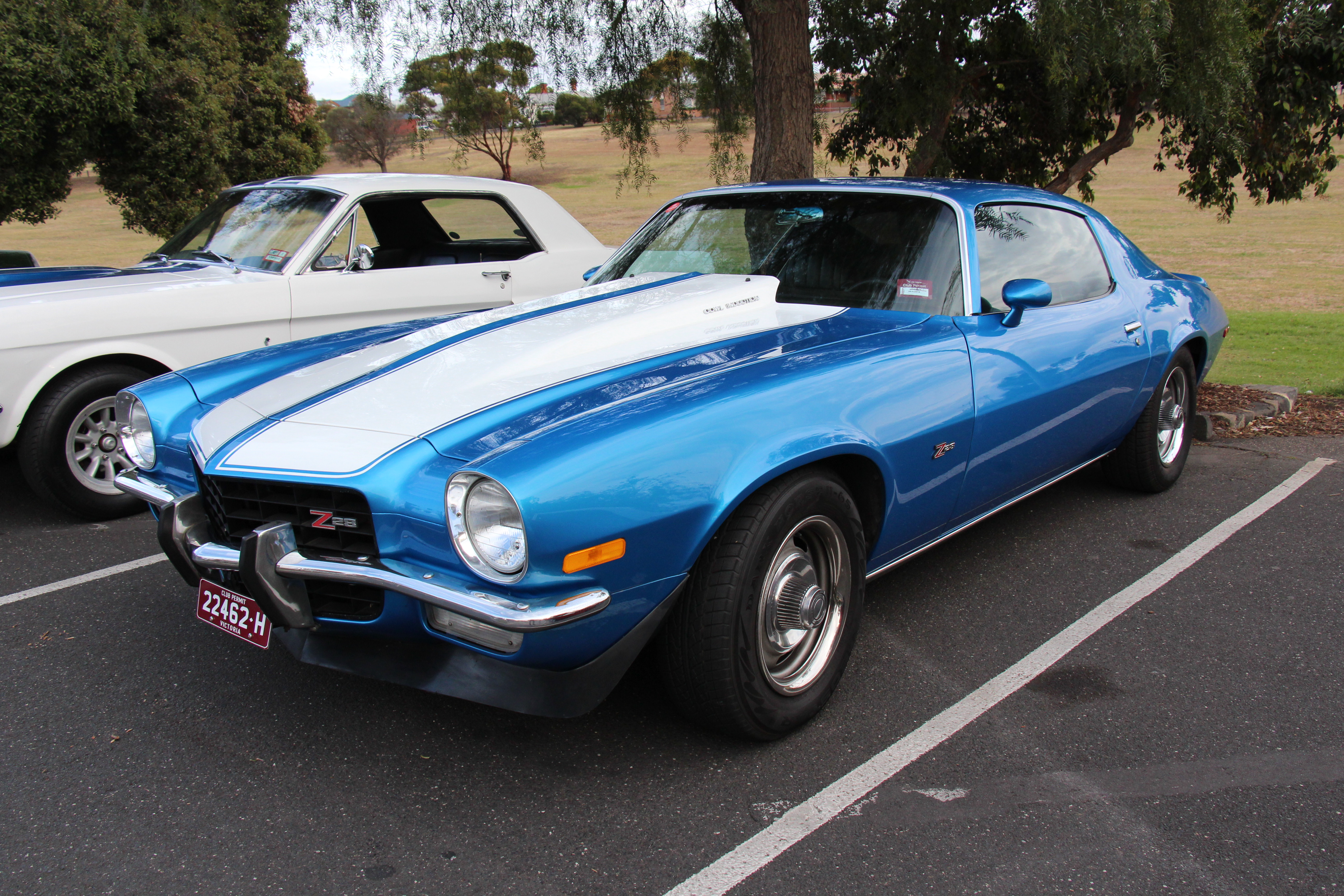 Dark Blue. The 2nd Generation Camaro was longer, lower and wider with a fastback roof line and no quarter windows, but the mechanicals were much the same, no convertible was available. High back seats were introduced in 1971. Available in RS appearance package, LT luxury package and Z28 performance package. (all packages could be ordered on the one car) Engines; 250 6 cyl, 350 V8s (no 396 now)